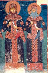 Fresco from monastery Psacha - Emperor Uros and king Vukasin